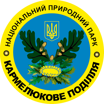 Karmelyukove Podillya